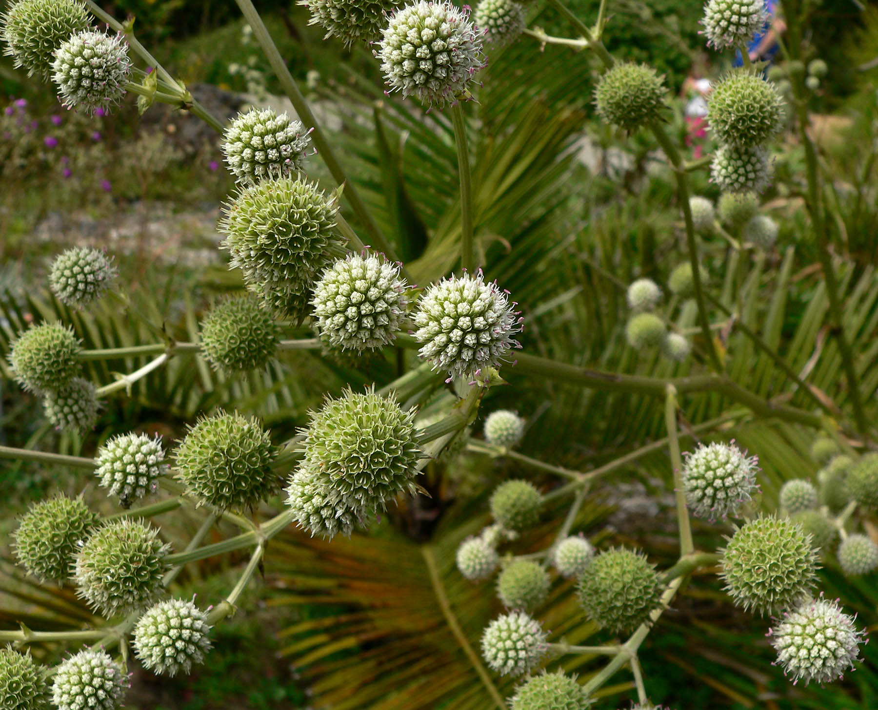 Photo of Eryngium paniculatum at the San Francisco Botanical Garden